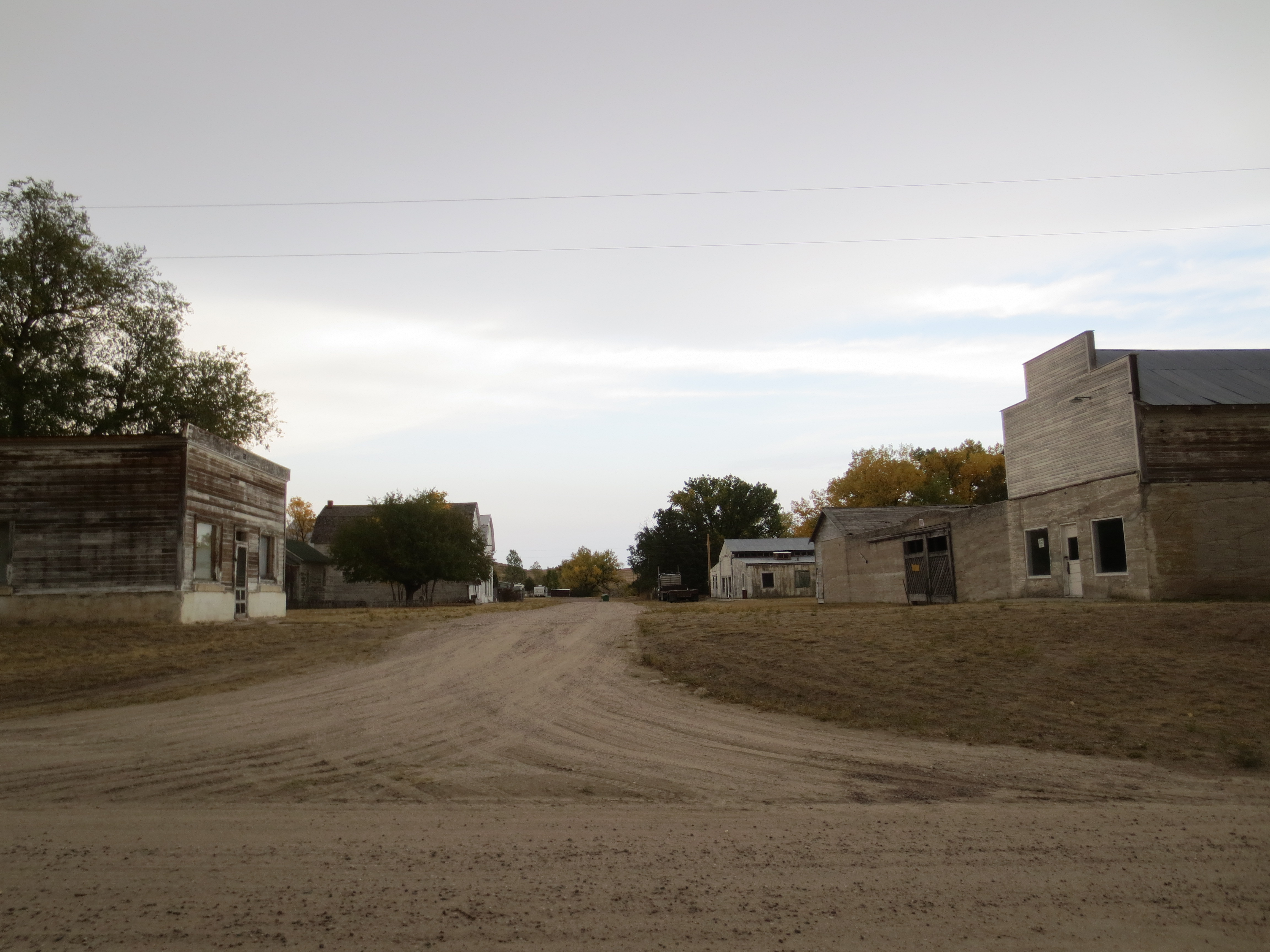 Jay Em Historic DistrictHistorical main road in Jay Em, Wyoming.